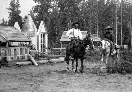 Photographer Unknown Photo taken 1920 Source BC Archives # A-07788 [1]